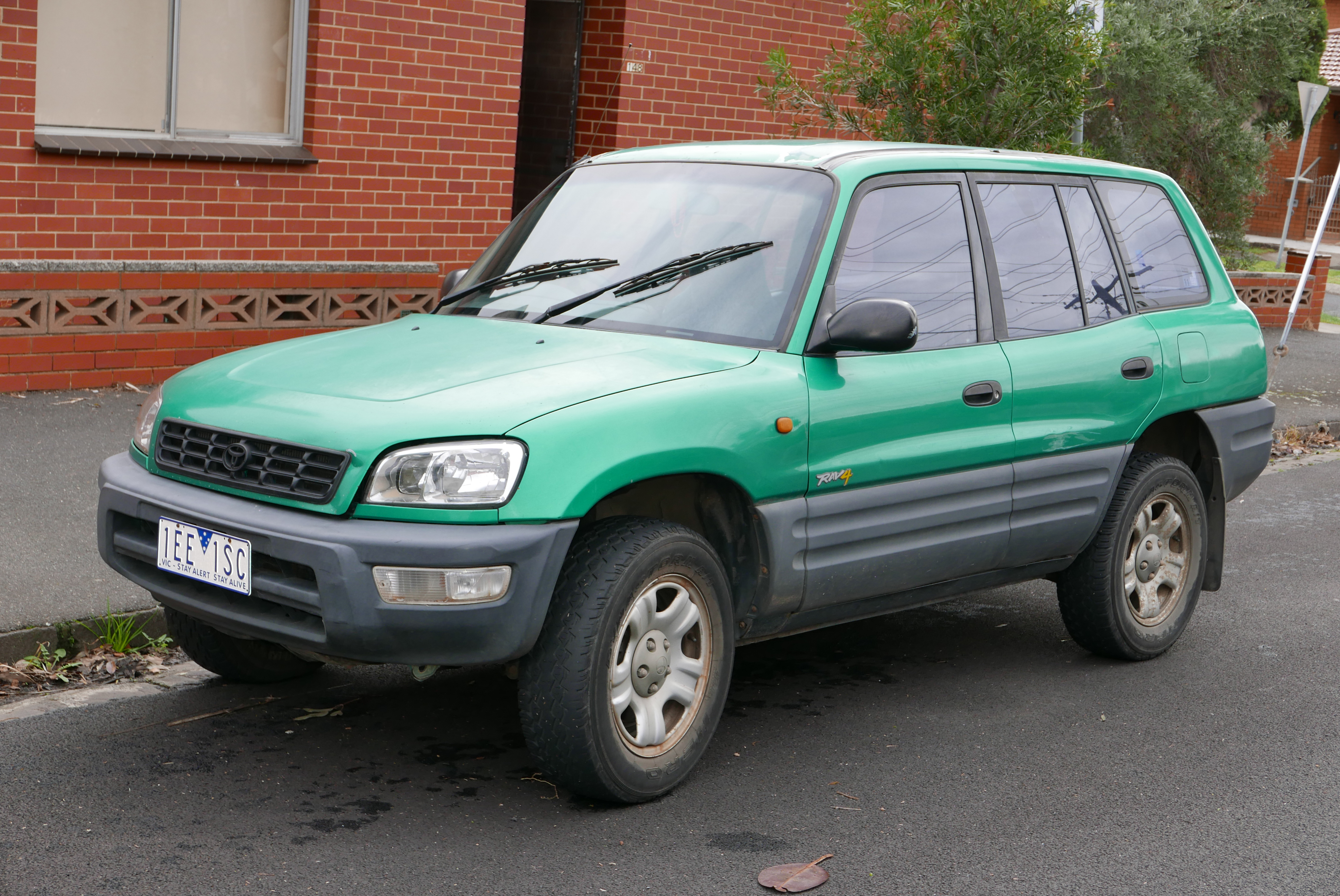 1998 Toyota RAV4 (SXA11R) wagon. Photographed in Brunswick, Victoria, Australia. Vehicle registration enquiry results Jurisdiction Victoria Registration 1EE1SC Chassis code JT772SC1100194068 Engine code 3S2499808 Compliance date 1998-04 Year of manufacture 1998